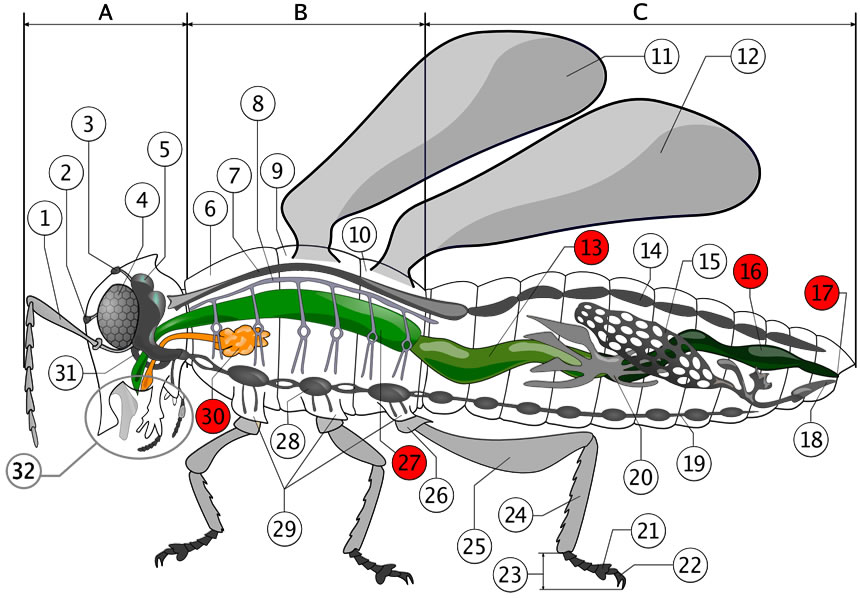 A diagram of an insects digestiv system , edited from version of image:Robal.png. To see what what the numbers are, see image:Robal.png description.